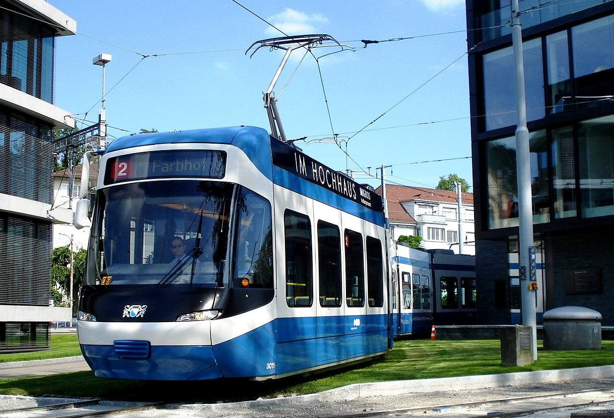 Cobra Tram on the Bahnhof Tiefenbrunnen terminal loop of tram route 2.